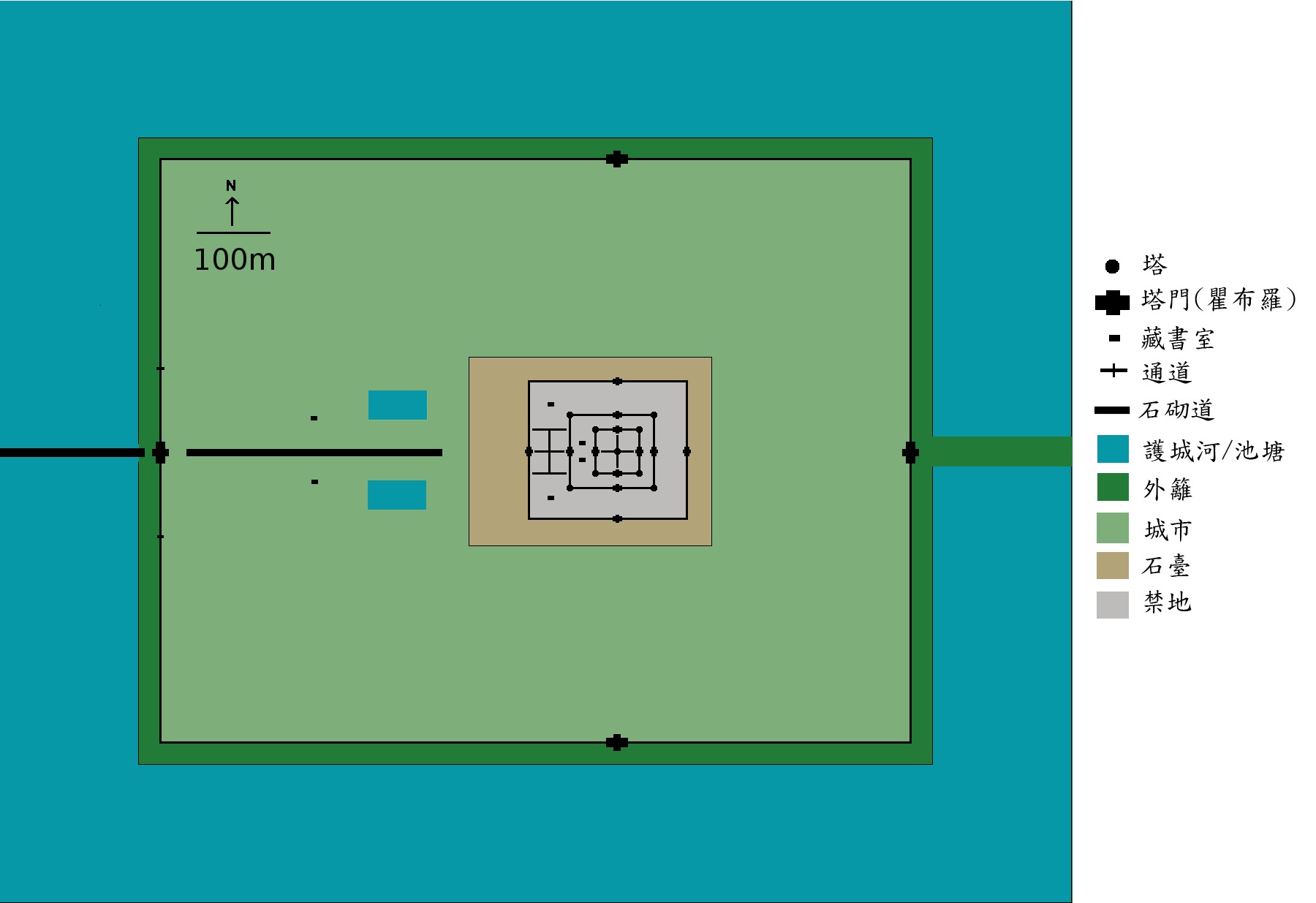 改編自Image:Awatplan04colours.png